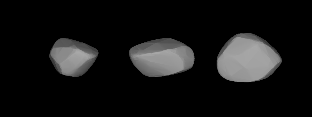 A three-dimensional model of 1241 Dysona that was computed using light curve inversion techniques.